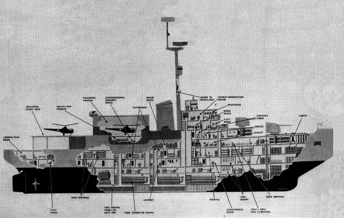 Diagram showing a U.S. Navy Glacier-/Wind-class icebreaker.